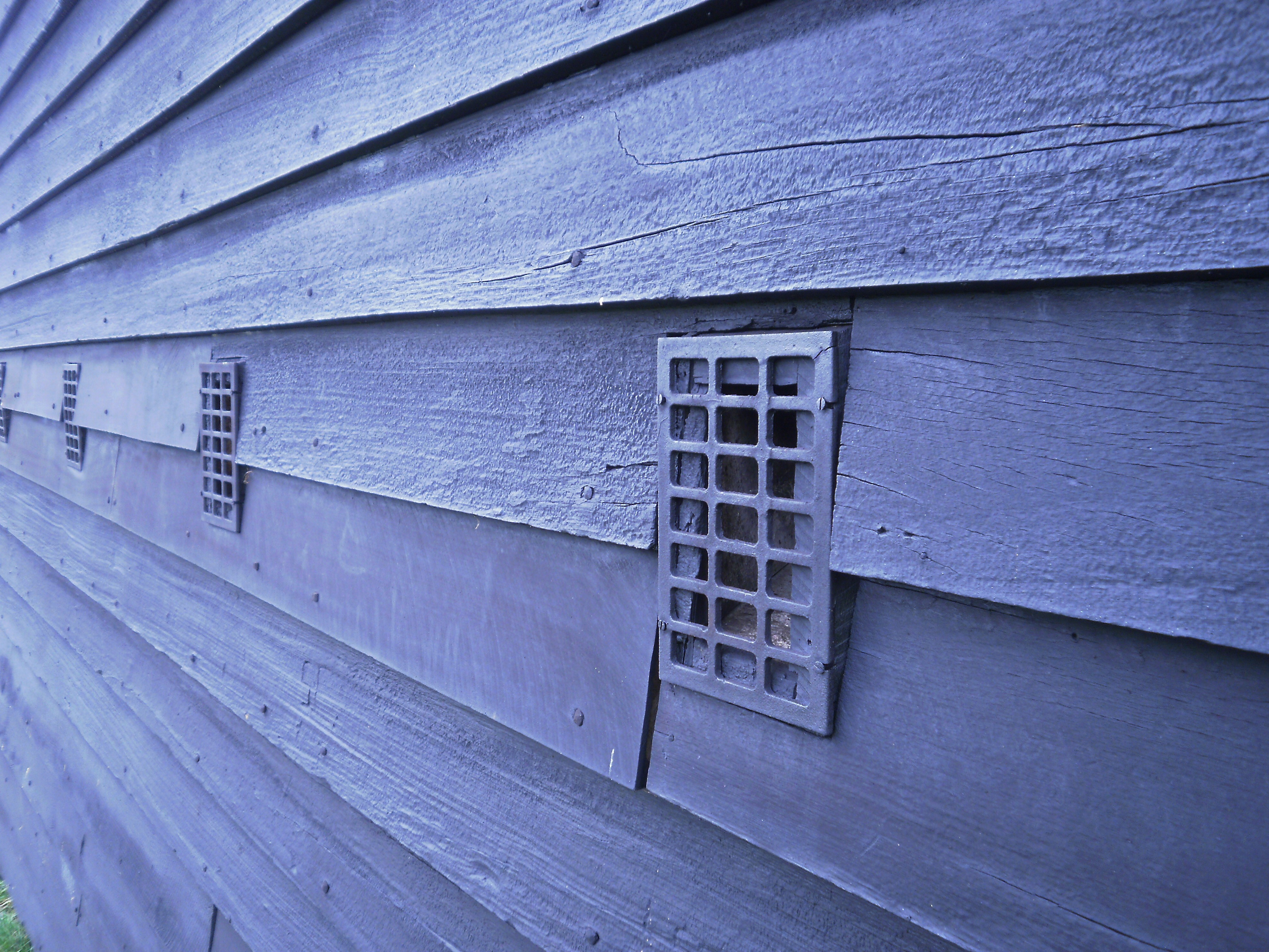 Upper Hutt Blockhouse, showing a close-up of the loopholes. Located in Upper Hutt, New Zealand. The fort was built in 1860 during the New Zealand Wars.